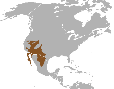 Kit Fox range, with colonial borders